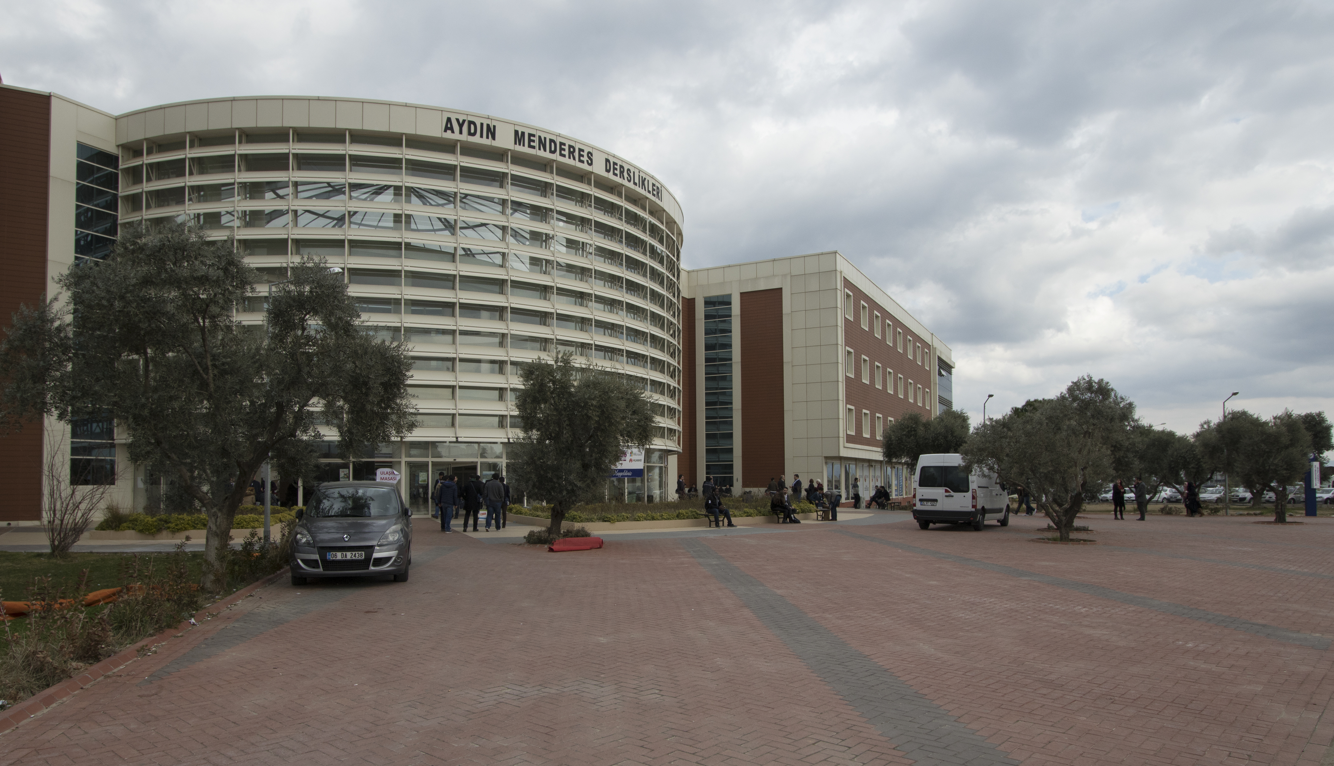 A southwestern view of the Aydın Menderes Central Lecture Halls Building at the Adnan Menderes University Campus. Aydın, Turkey.